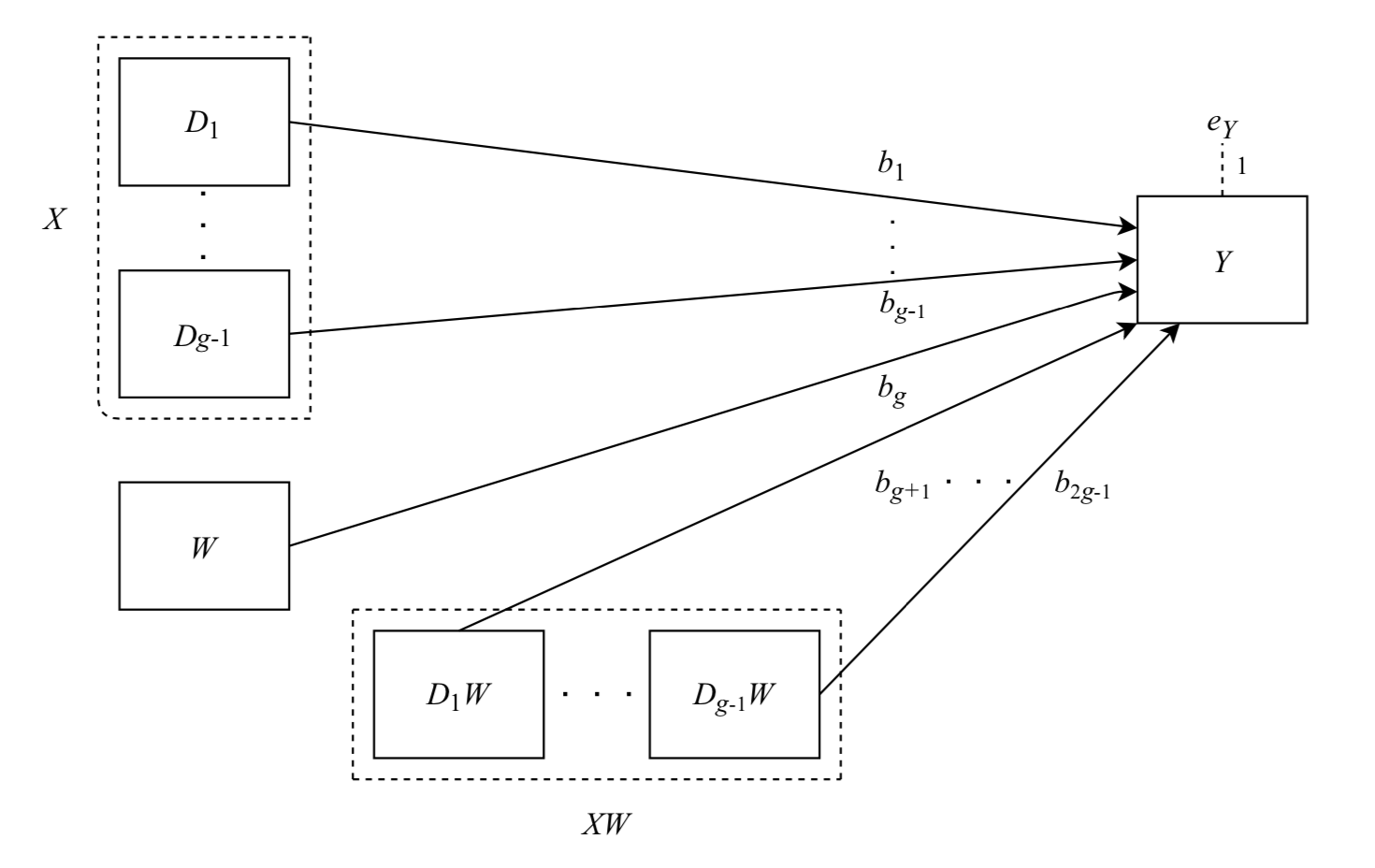 Shown here is a statistical diagram that depicts a moderation model with one multicategorical independent variable, which is the focal antecedent X. The g categories represent the various levels of X. Pathways are labeled with italicized lowercase letters.